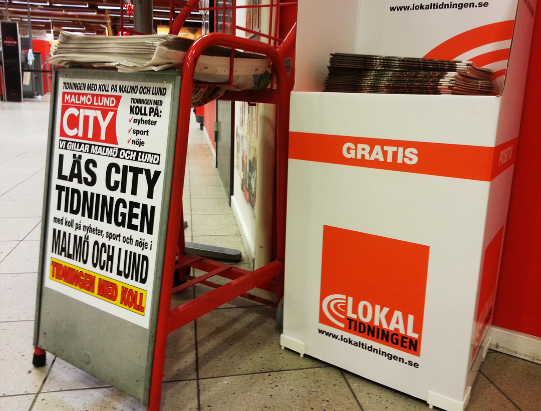 Free newspapers distributed in Lund, Sweden.